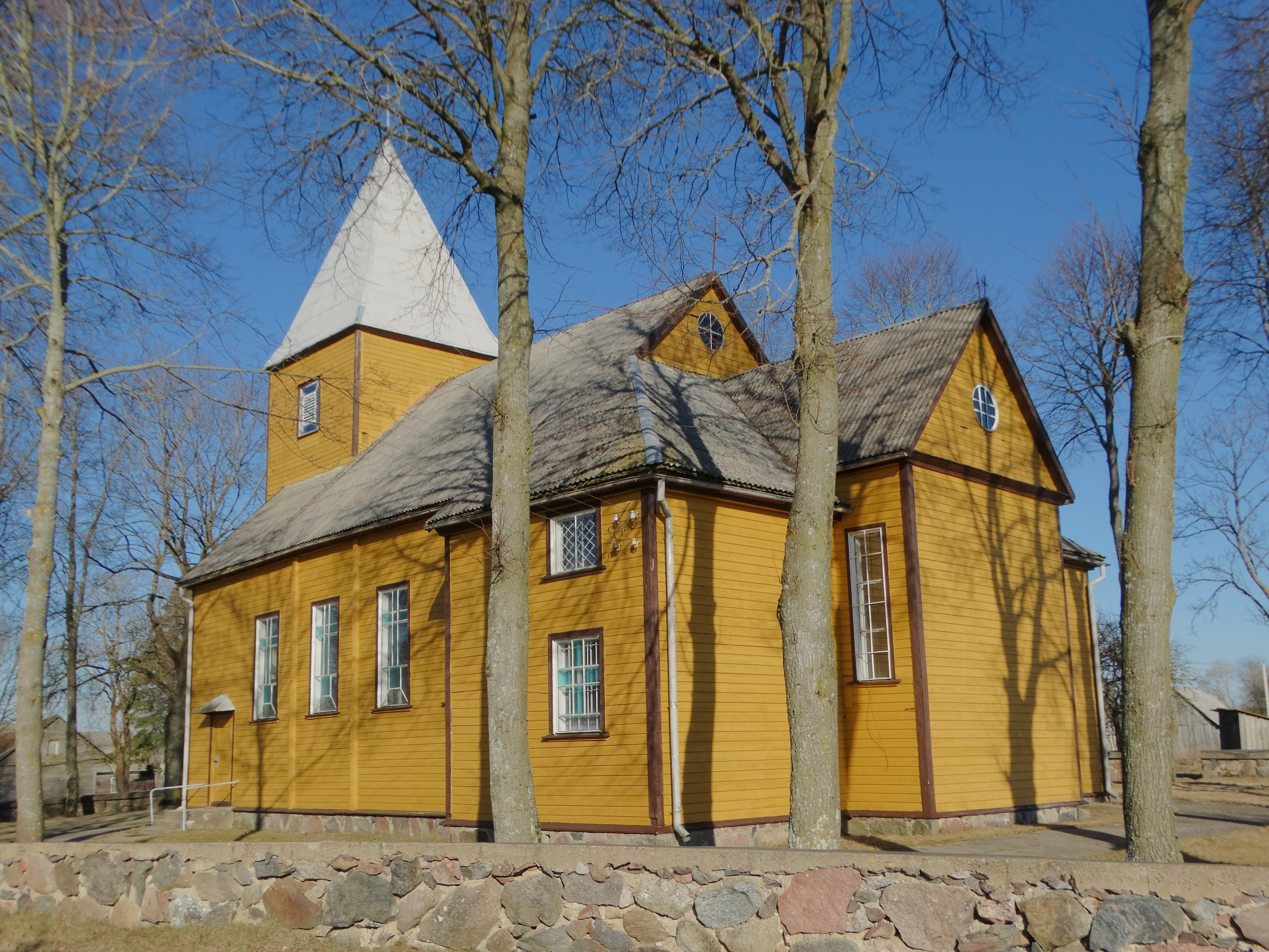 Church of St. Anthony of Padua, Vidsodis, Kelmė district, Lithuania